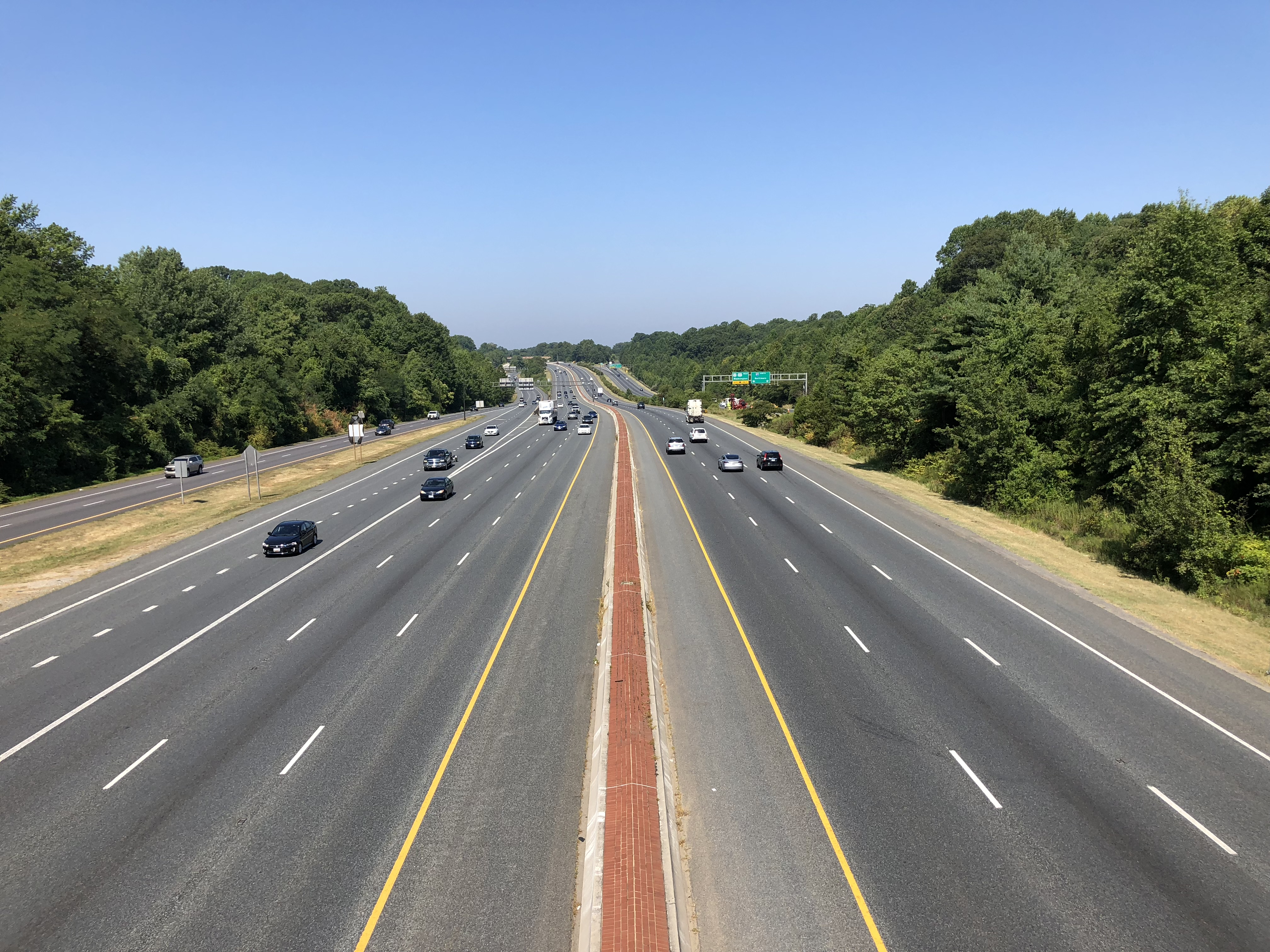 View west along Interstate 595/U.S. Route 50 and south along U.S. Route 301 (John Hanson Highway) from the overpass for the ramp from westbound Interstate 595/U.S. Route 50 and southbound U.S. Route 301 to Maryland State Route 665 in Parole, Anne Arundel County, Maryland